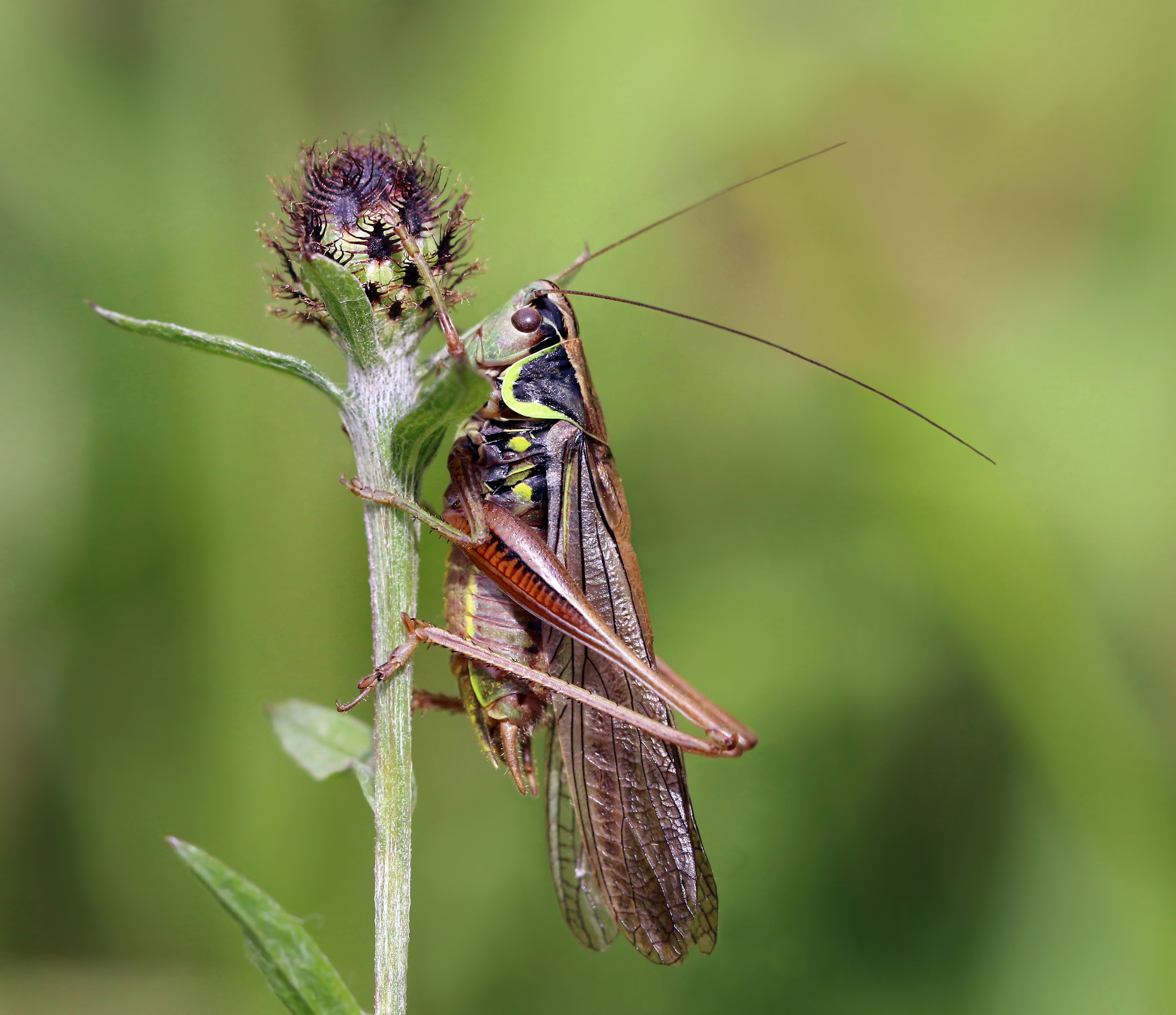 Roesel's bush-cricket (Metrioptera roeselii diluta) male, Finemere Wood, Oxfordshire